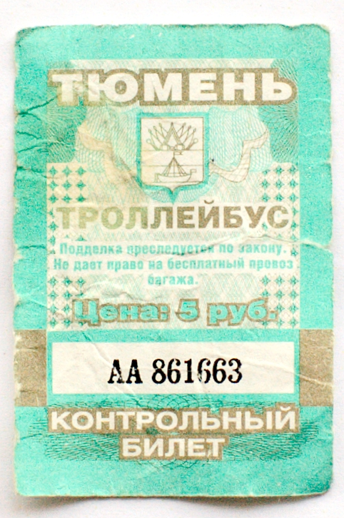 Tyumen trolleybus ticket